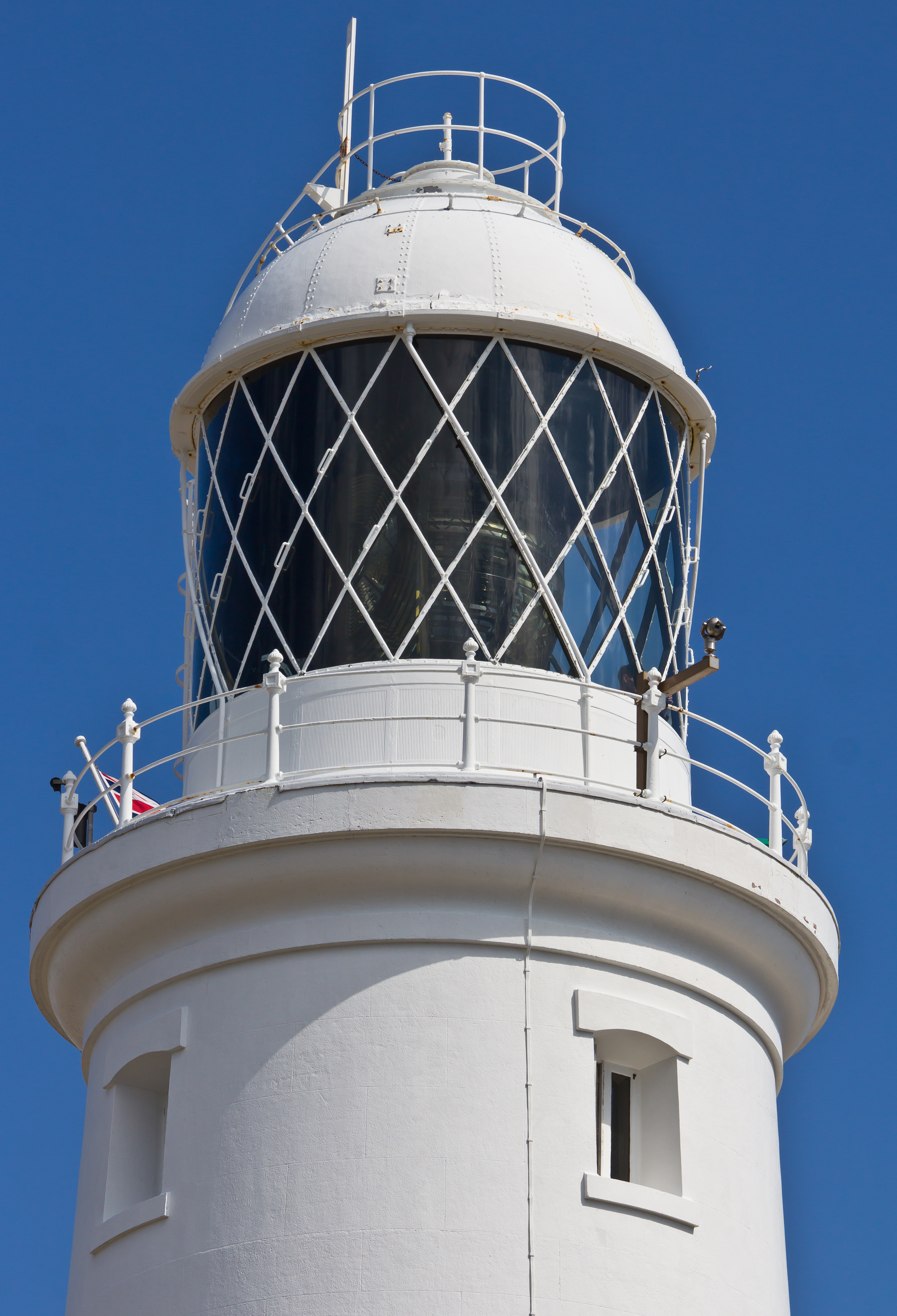 Portland Bill Lighthouse, Isle of Portland, Dorset